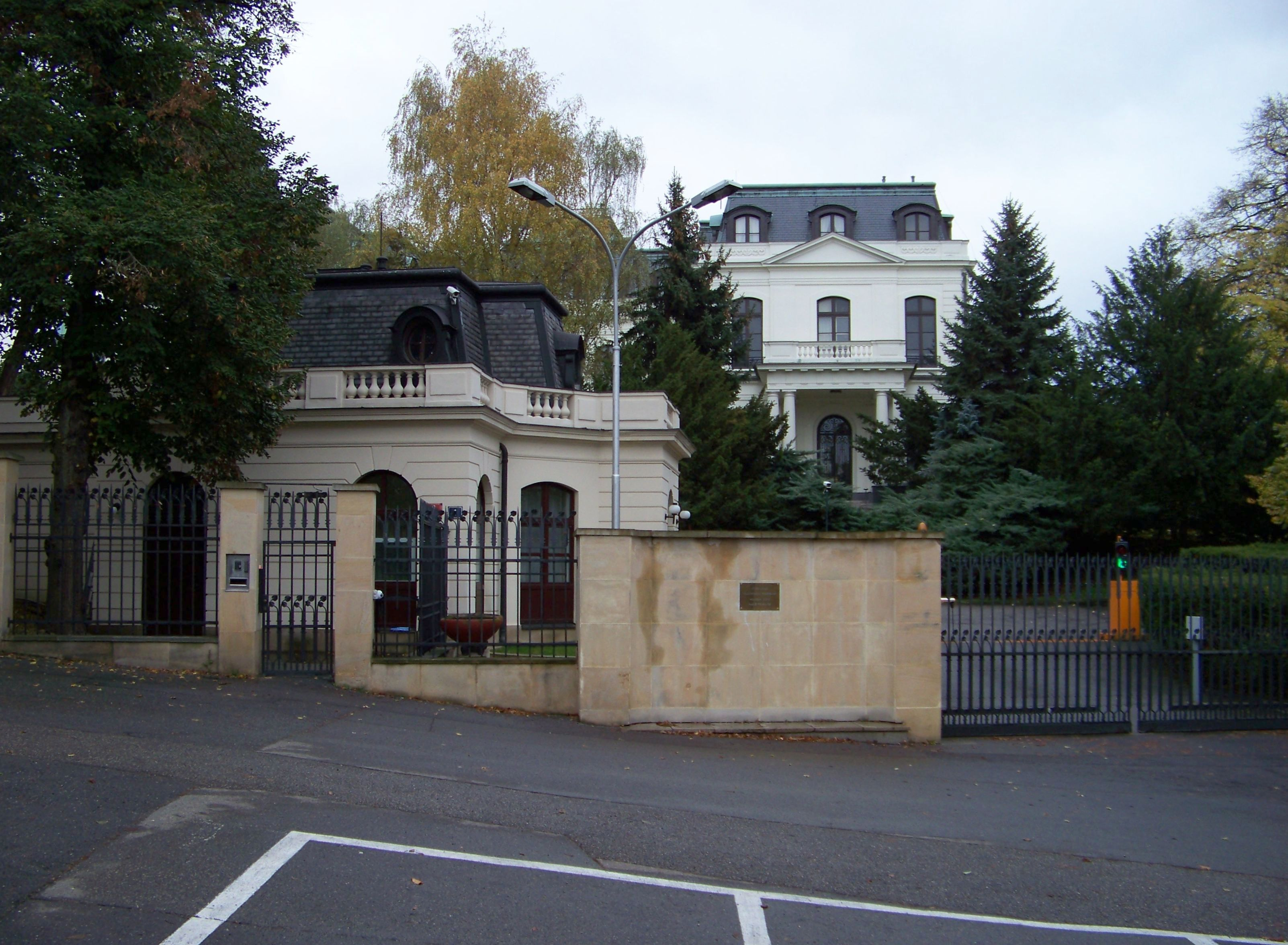 Prague-Bubeneč, the Czech Republic. náměstí Pod kaštany, Russian embassy.